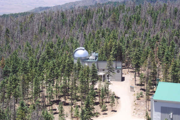 Vatican Advanced Technology Telescope on Mount Graham, Arizona, image taken by Yvette Cendes, 2004